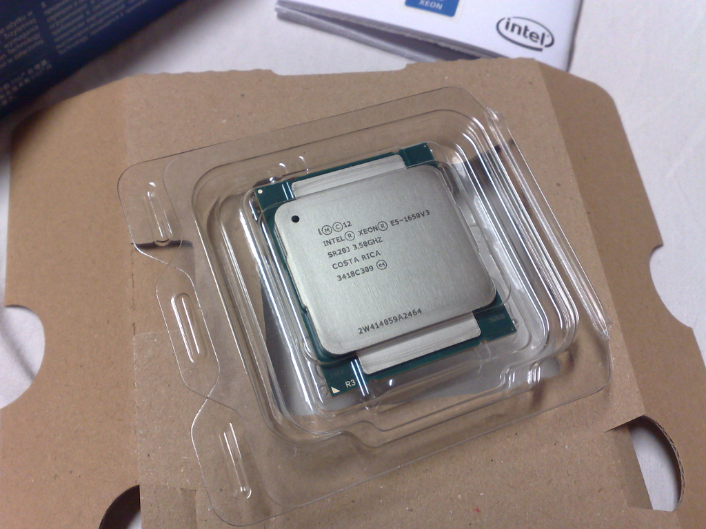 Intel Xeon E5-1650 v3 CPU (Haswell-EP), sitting atop the inside part of its retail box that comes with no OEM heatsink